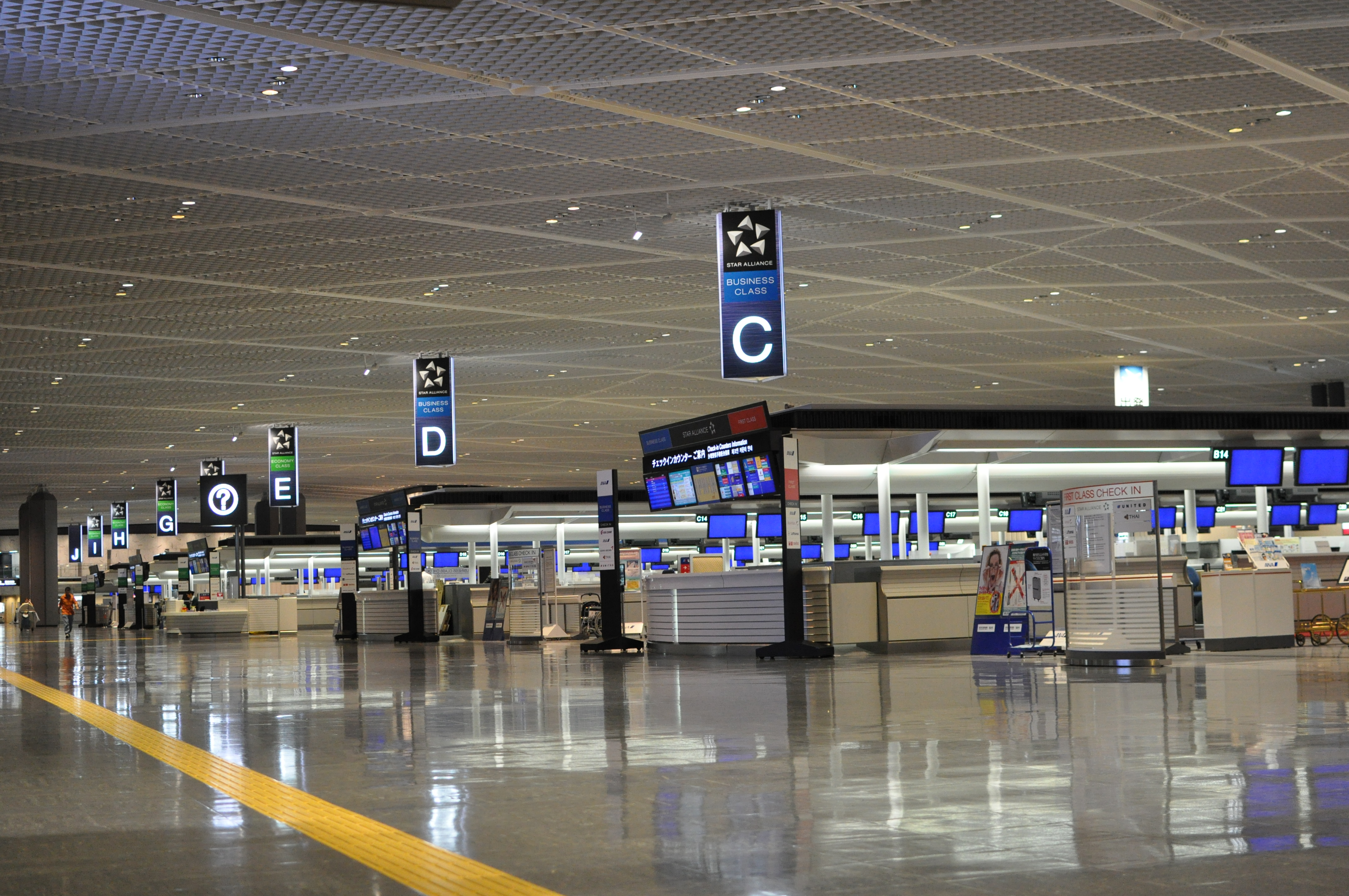 Narita International Airport, Terminal 1